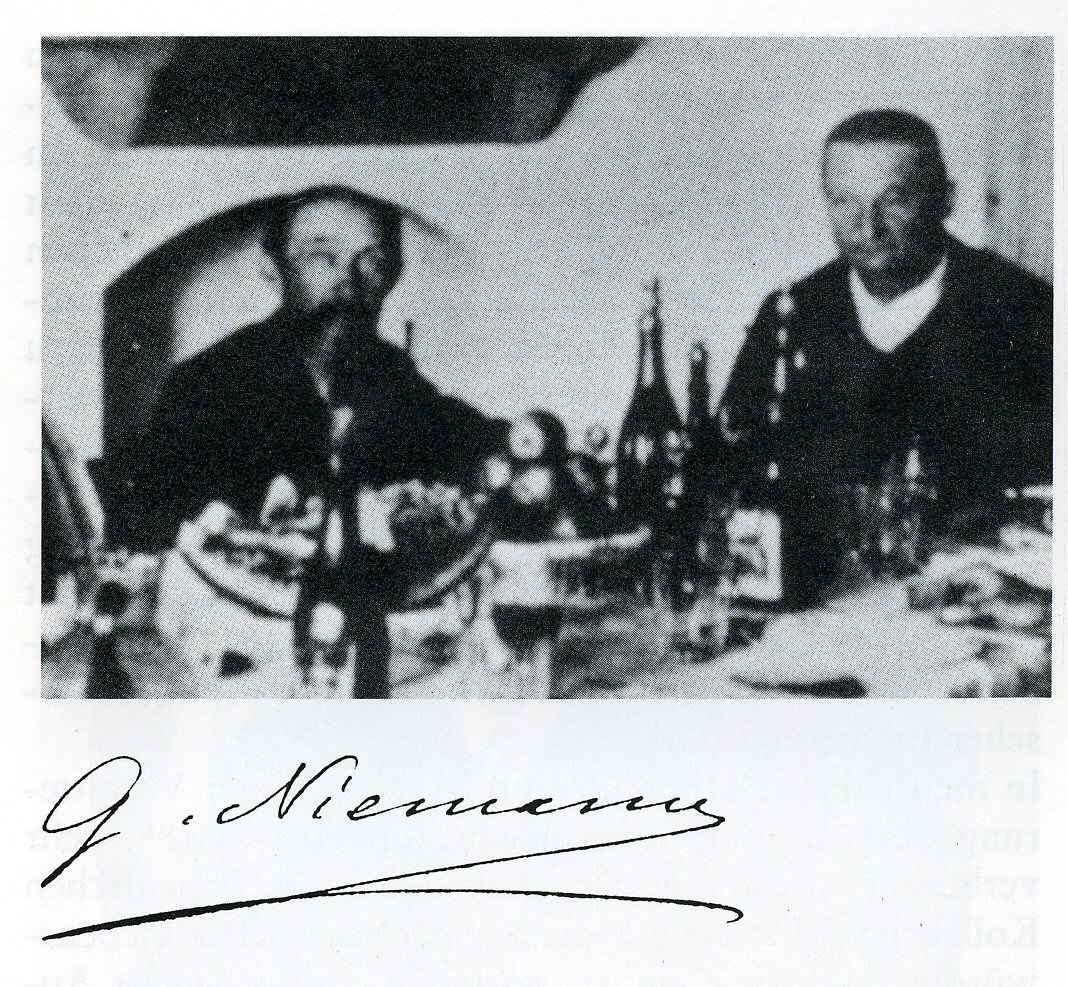 George Niemann and Otto Benndorf 1896 in Ephesos